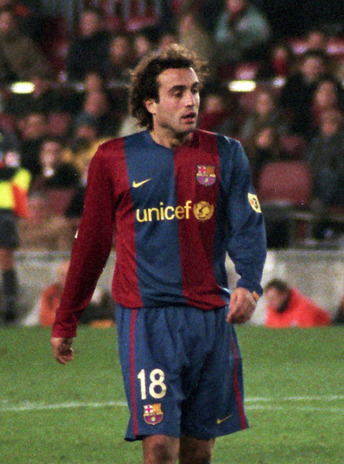 Santiago Ezquerro, Futbol Club Barcelona's player, during the match FC Barcelona-Atlético de Madrid.